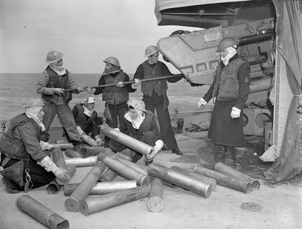 LAC caption : "Normandy, France. A 4.7-inch (12 cm) gun crew of the destroyer HMCS Algonquin piling shell cases and sponging out the gun after bombarding German shore defences in the Normandy beachhead." Allen, K. De Guire, R. Day G. Trevisanutto, G. Van Dyke, J. Irwin, A. Mathetuk, E.